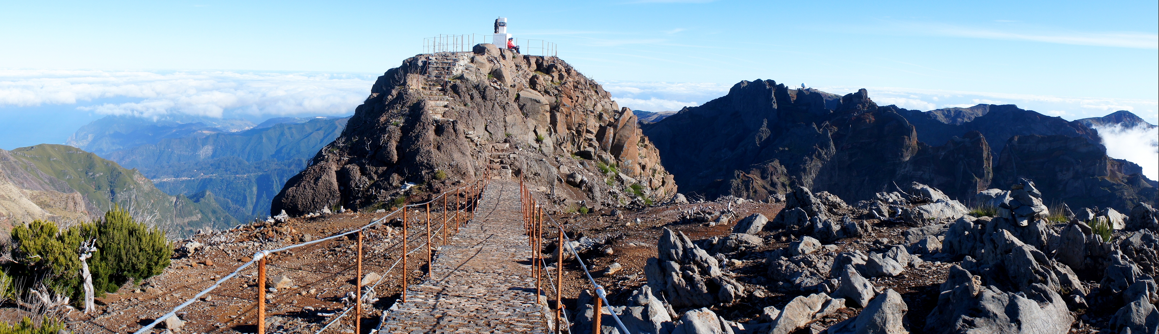 View to the summit of Pico Ruivo and the Pico do Arieiro (Madeira, Portugal).